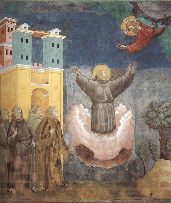 Legend of St Francis